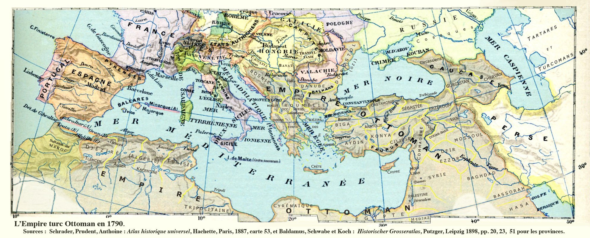 This is a PD-old map of the Ottoman Empire, author unknown around 1890.